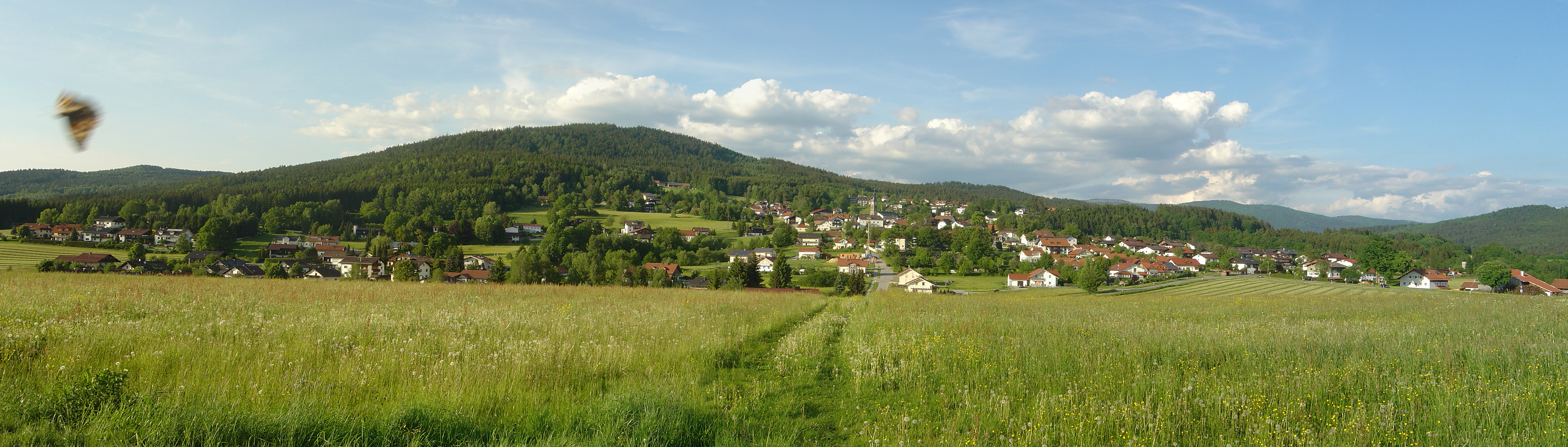 Panoramaview of Böbrach